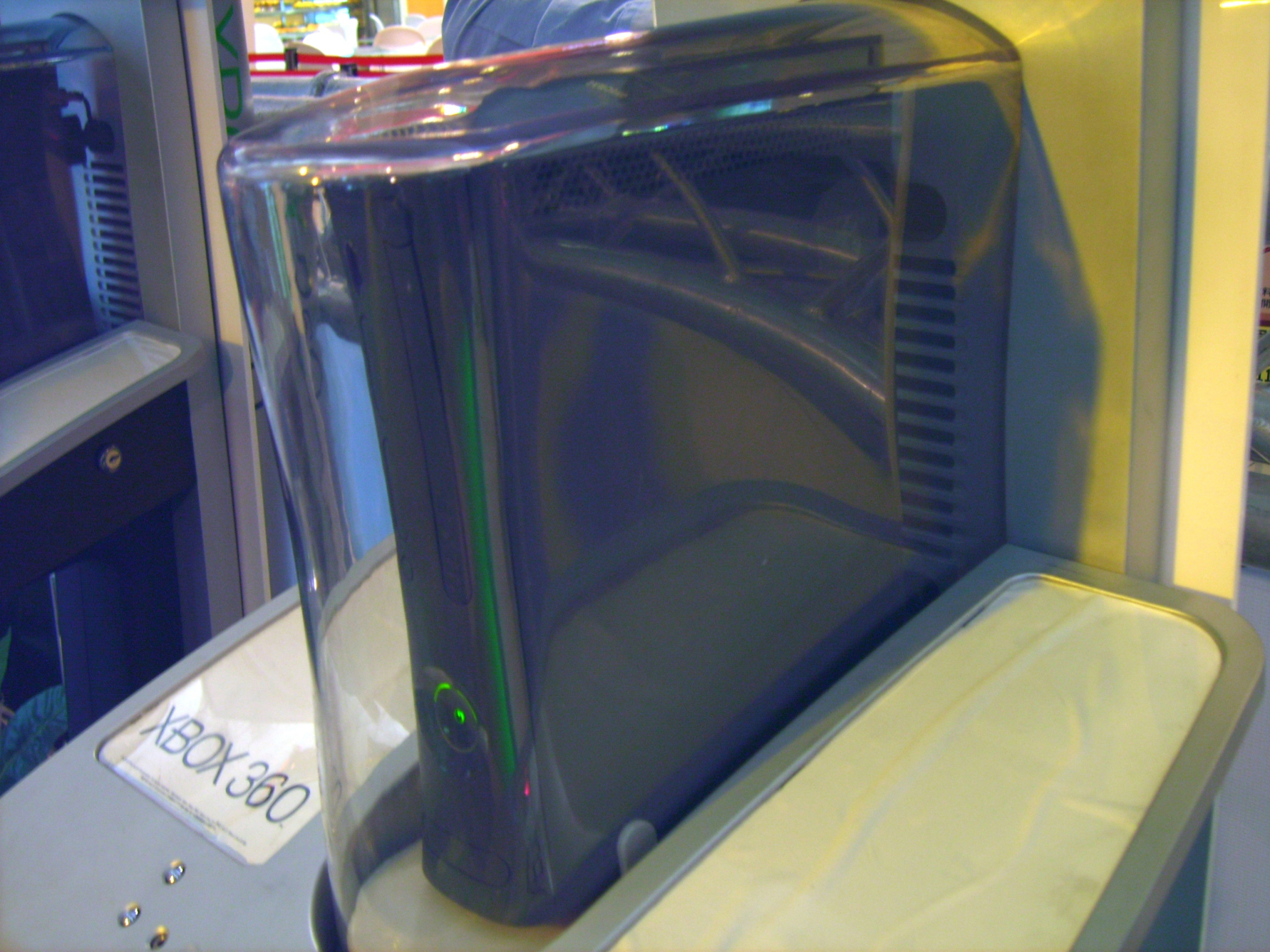 Rare XBOX360 Debug Console at X06 Taiwan.